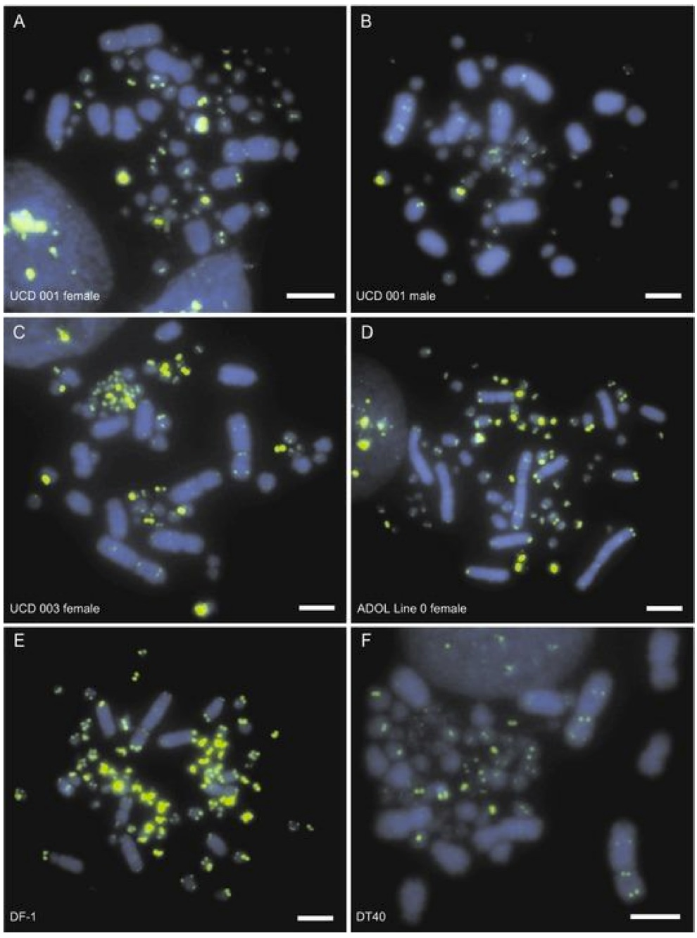 Comparative telomeric array organization within and among diverse chicken genotypes illustrates intra-genomic, inter-individual, and inter-genotype variation. The genotypes shown include the Red Jungle Fowl line UCD 001 (A, B), Single Comb White Leghorn lines UCD 003 (C), and ADOL Line 0 (D), as well as two cell lines DF-1 (E) and DT40 (F). Cells shown in A, C, and D are from females and Bis from a male.